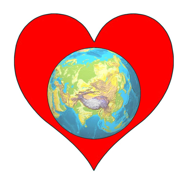 World Flag wannabe. Planet Earth within a Heart. Created by The Planets Political advertising agency. Owned by the entire humanity and planet Earth.